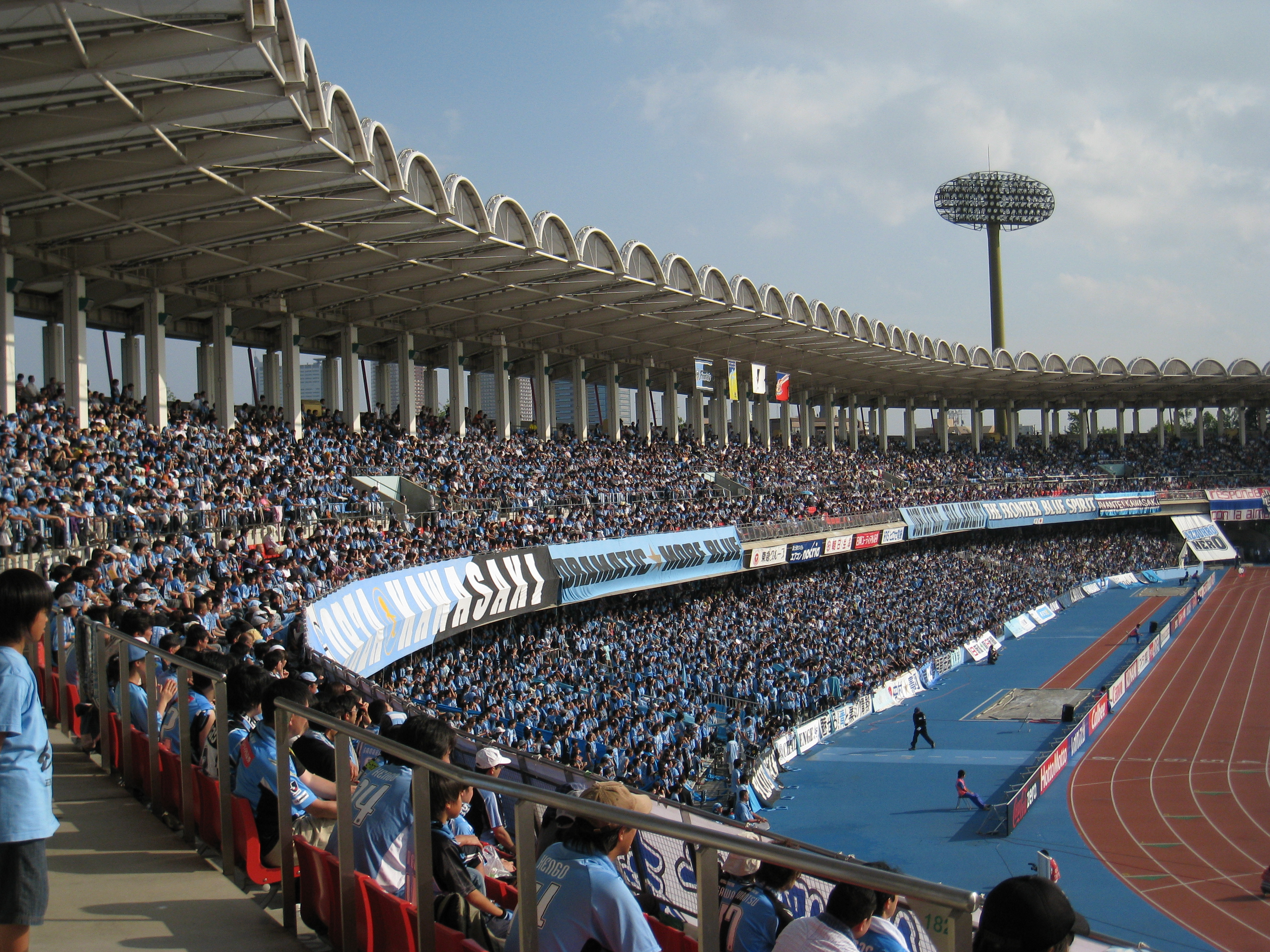 Todoroki stadium. Nakahara-ku,Kawasaki-shi,Kanagawa-ken,Japan